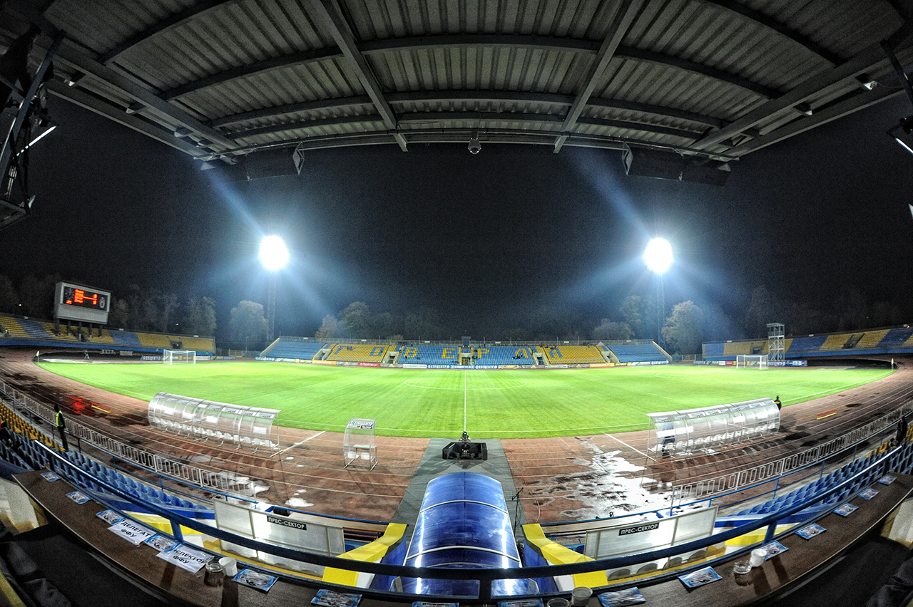 Avanhard Stadium in Uzhhorod, Ukraine